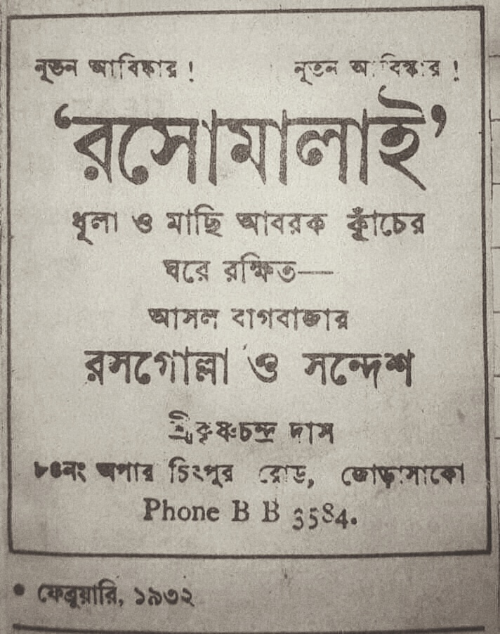 Advertisement of Rosomalai Dated 1932, February